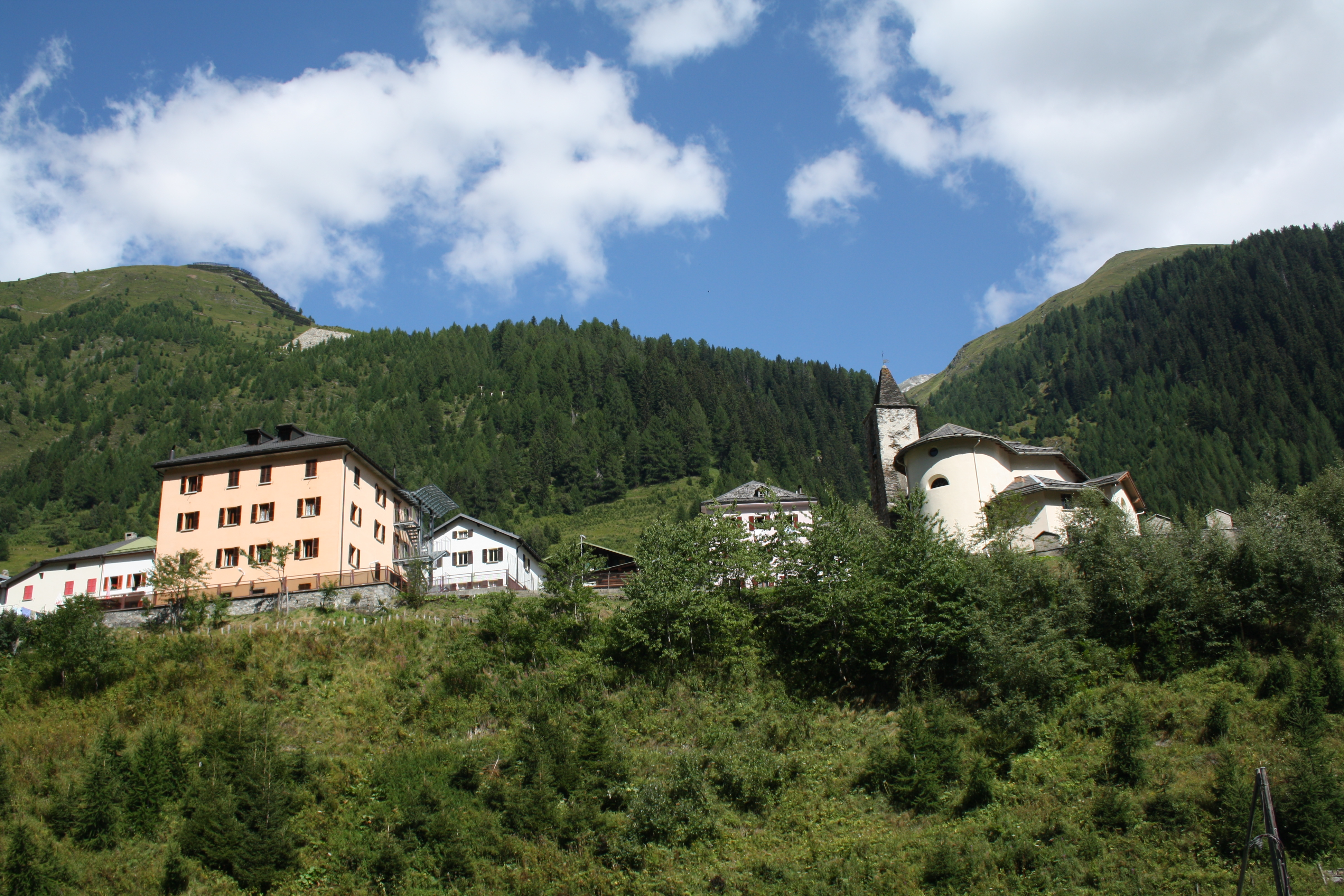 Small town in the Valle Bedretto. On the way to the top of the Nufenenpas passing by.